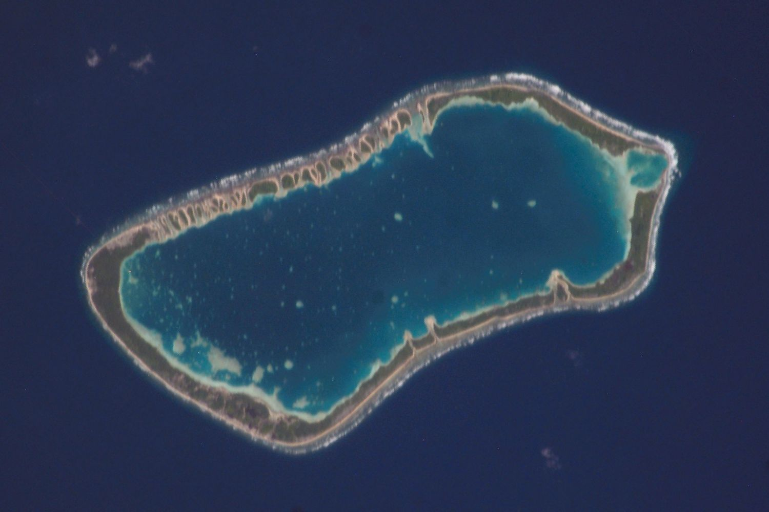 Orona (Hull) atoll in the Phoenix Islands (Kiribati) seen from the International Space Station